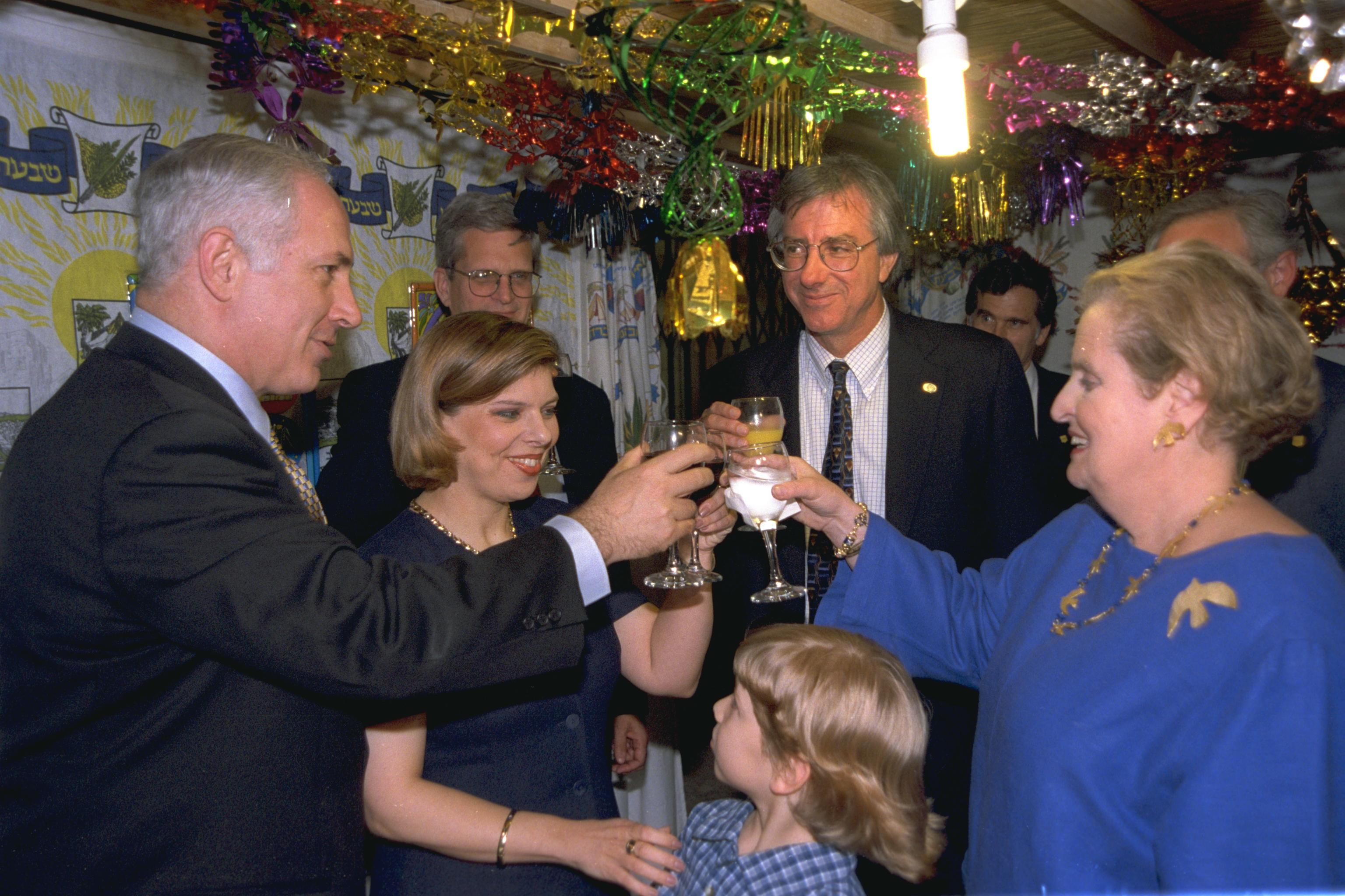 U.S. Secretary of State Madeleine Albright (right) toasts in the sukkah of Prime Minister Benjamin Netanyahu (left) with the prime minister and his wife Sara as Dennis Ross looks on. GPO photo by Amos Ben Gershom.